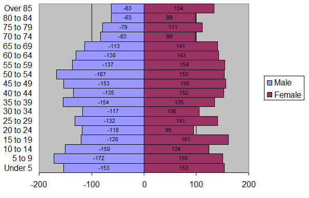 The 2010 age distribution data for Windom Minnesota. Source is the 2010 census data.